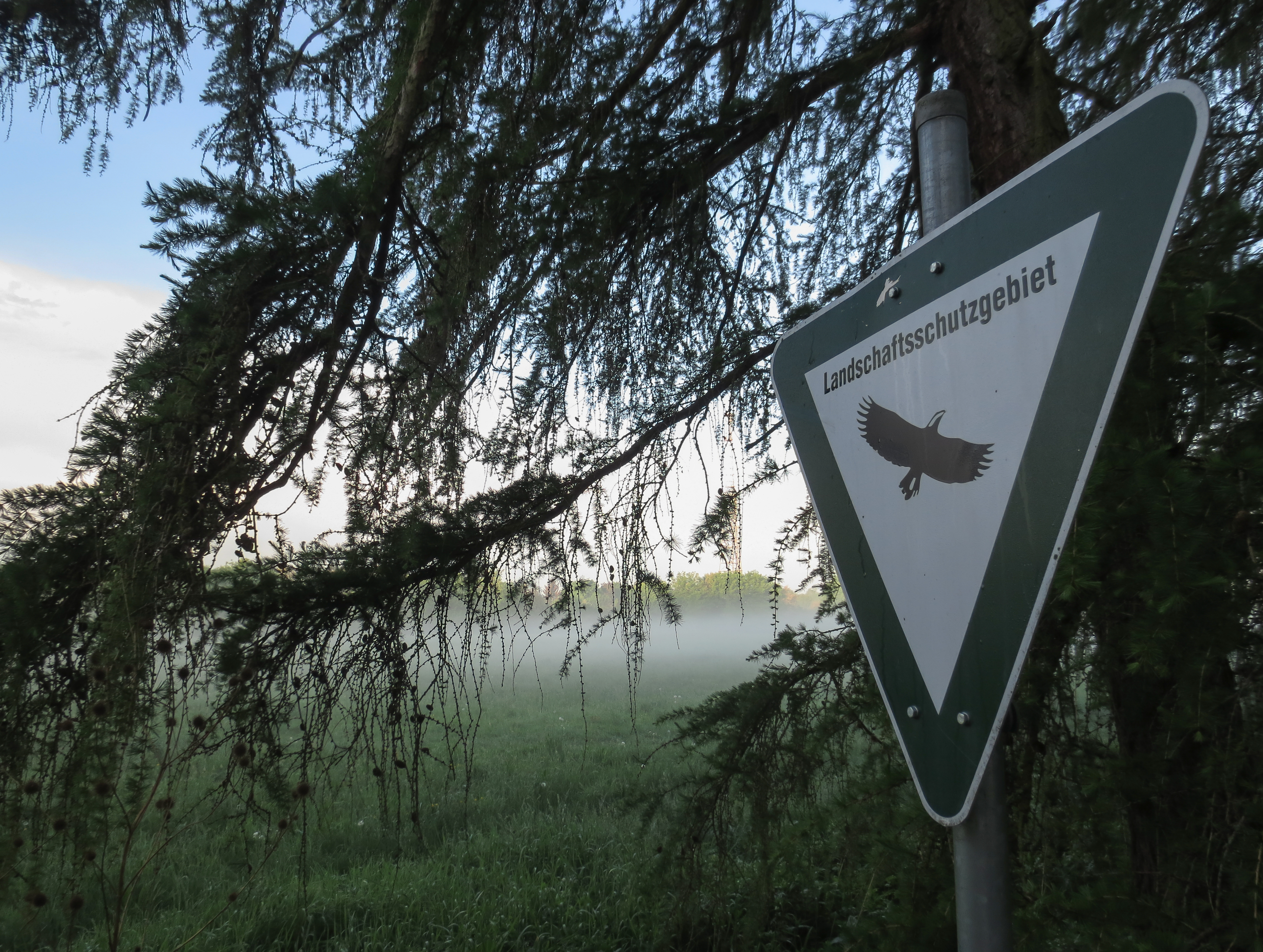 LSG-00588.01 - Protected landscape area Nymphenburg. This area is outside the castle wall and gardens of the castle of Nymphenburg in Munich. The picture schows the sign "Landscape protection area" on a foggy and sunny morning.